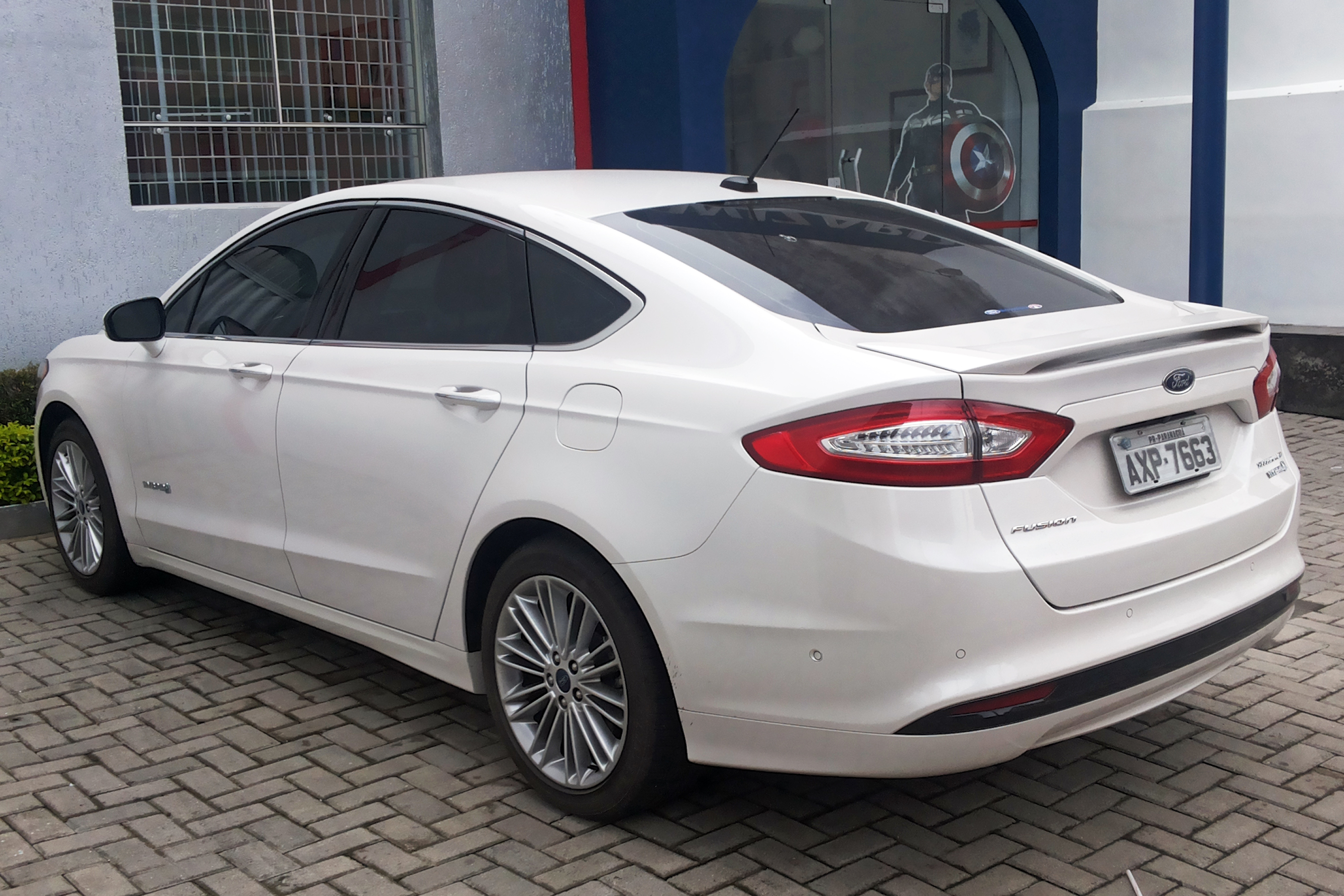 Brazilian version of the Ford Fusion Hybrid (2nd gen) Titanium trim in Paranaguá, Paraná state, Brazil.